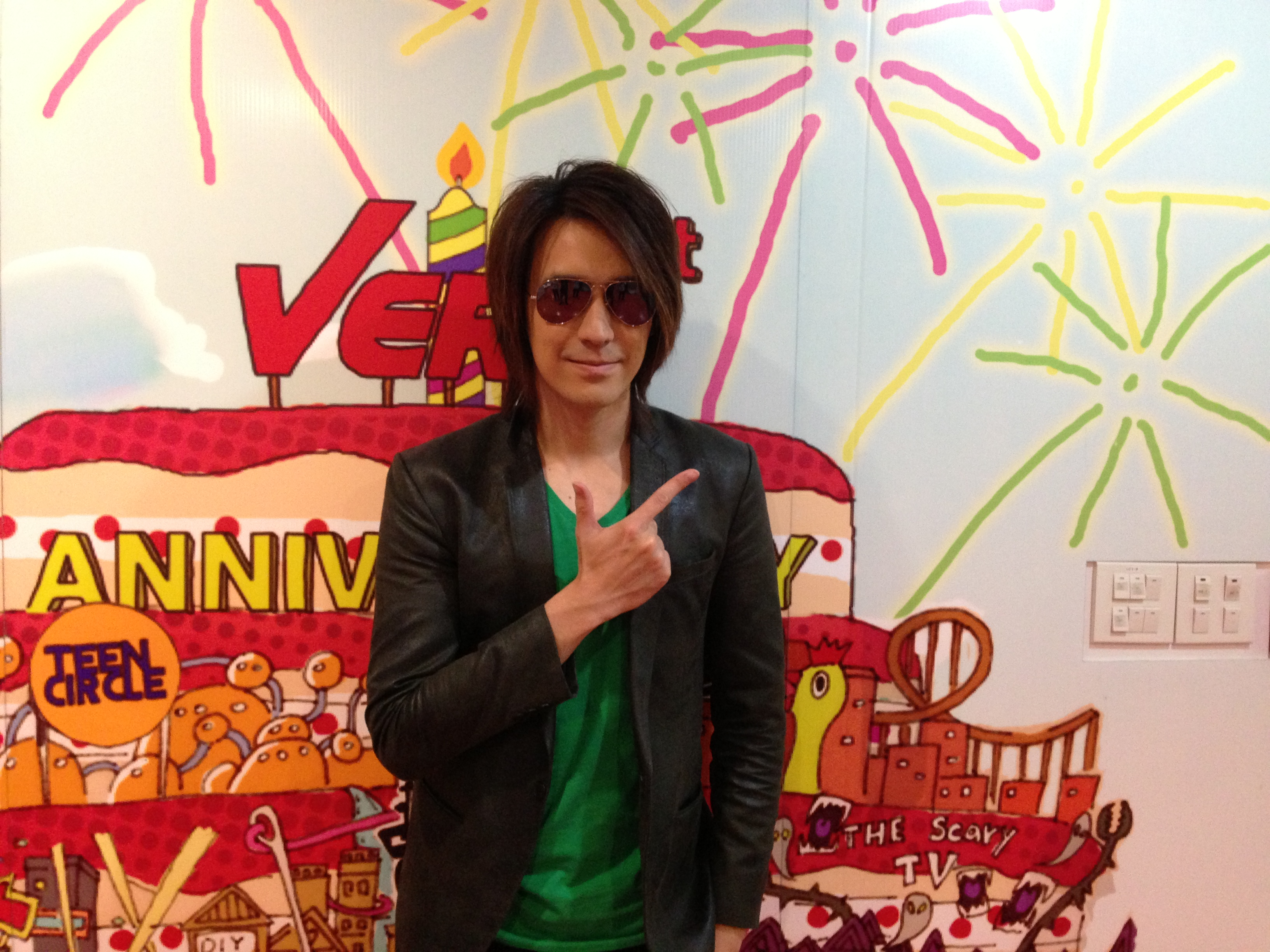 Ruj The Star at VERY TV.